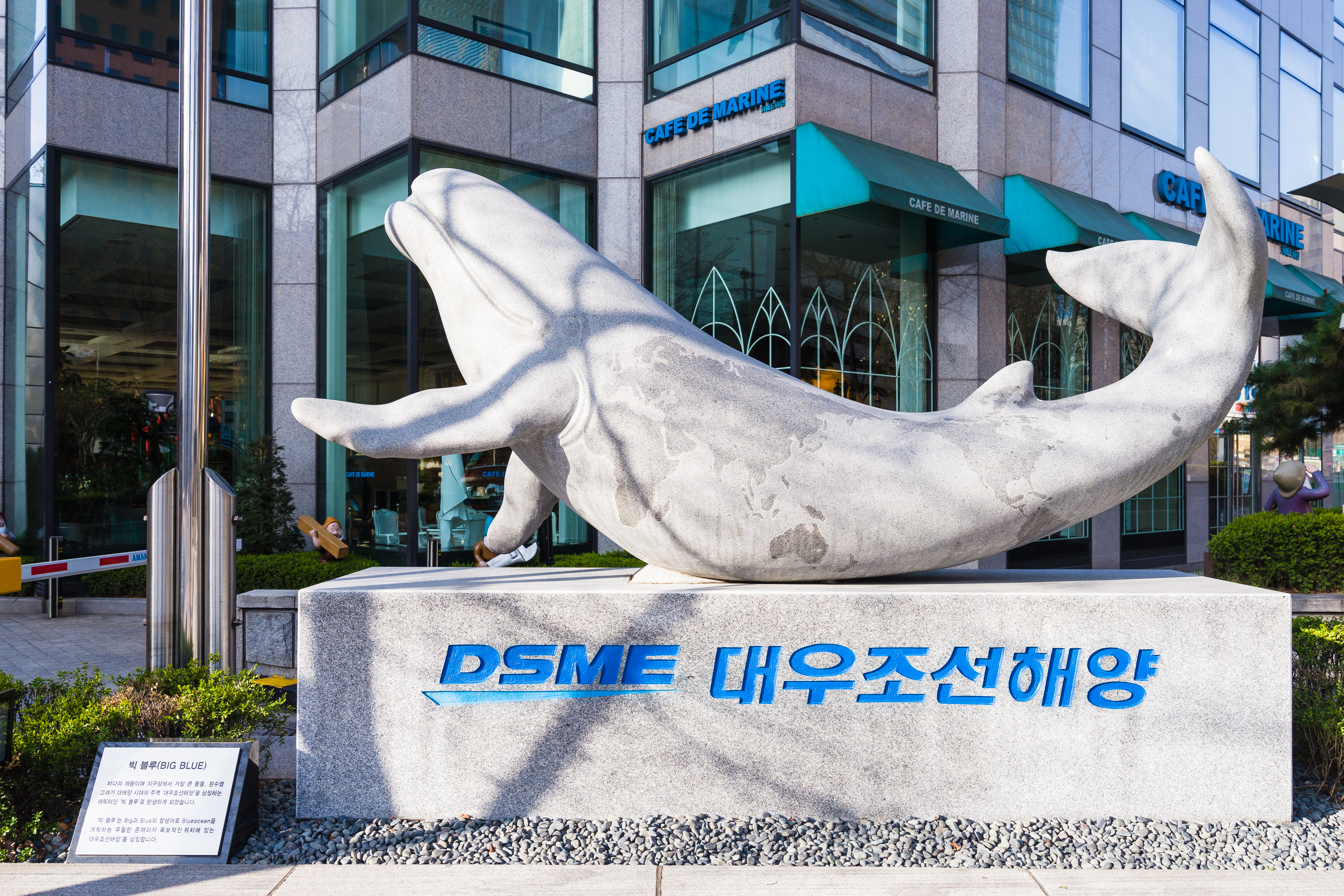 City View of Seoul, DSME "Big Blue statue, Jongno-gu